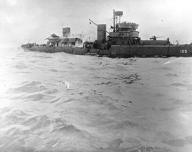 USS Tide sinking, soon after hitting a mine off "Utah" Beach, on 7 June 1944, during the Normandy landings. Note her broken back, with smoke pouring from amidships. U.S. Navy Photo 80-G-651676.